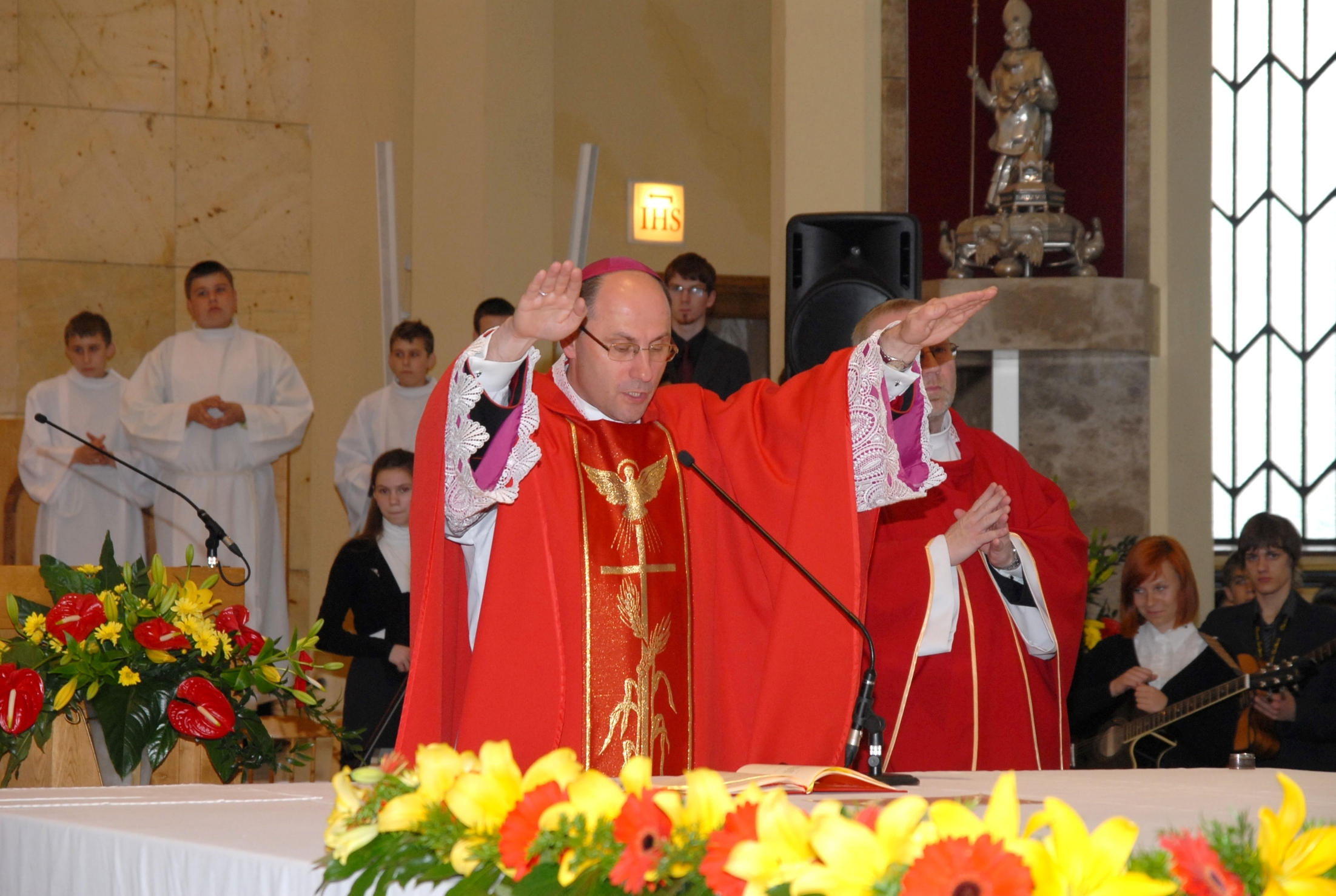 Bp. Wojciech Polak